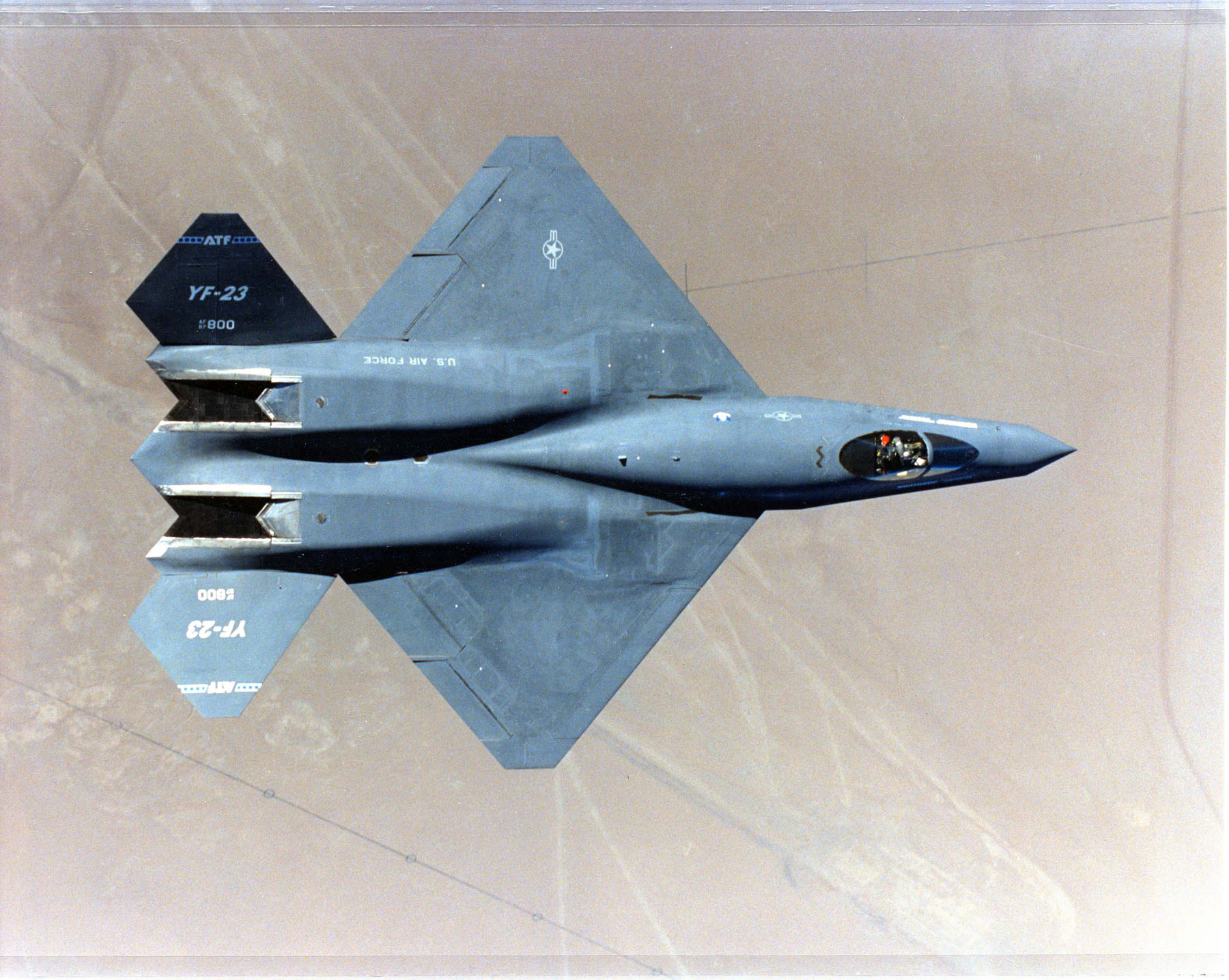 Top view of the Northrop-McDonnell Douglas YF-23 in flight. (U.S. Air Force photo)